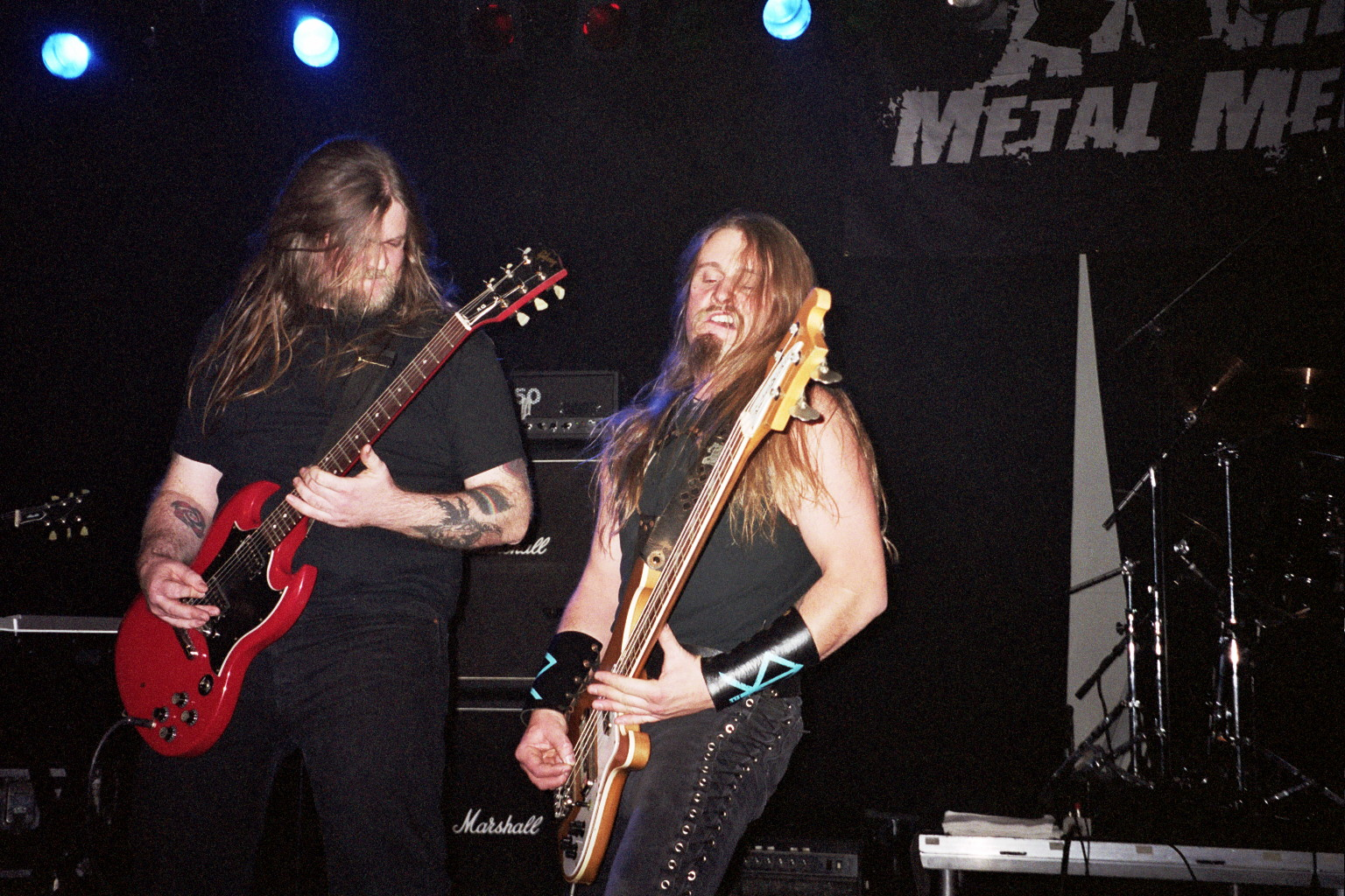 Enslaved live at Arnhem Metal Meeting 2005 in Holland.